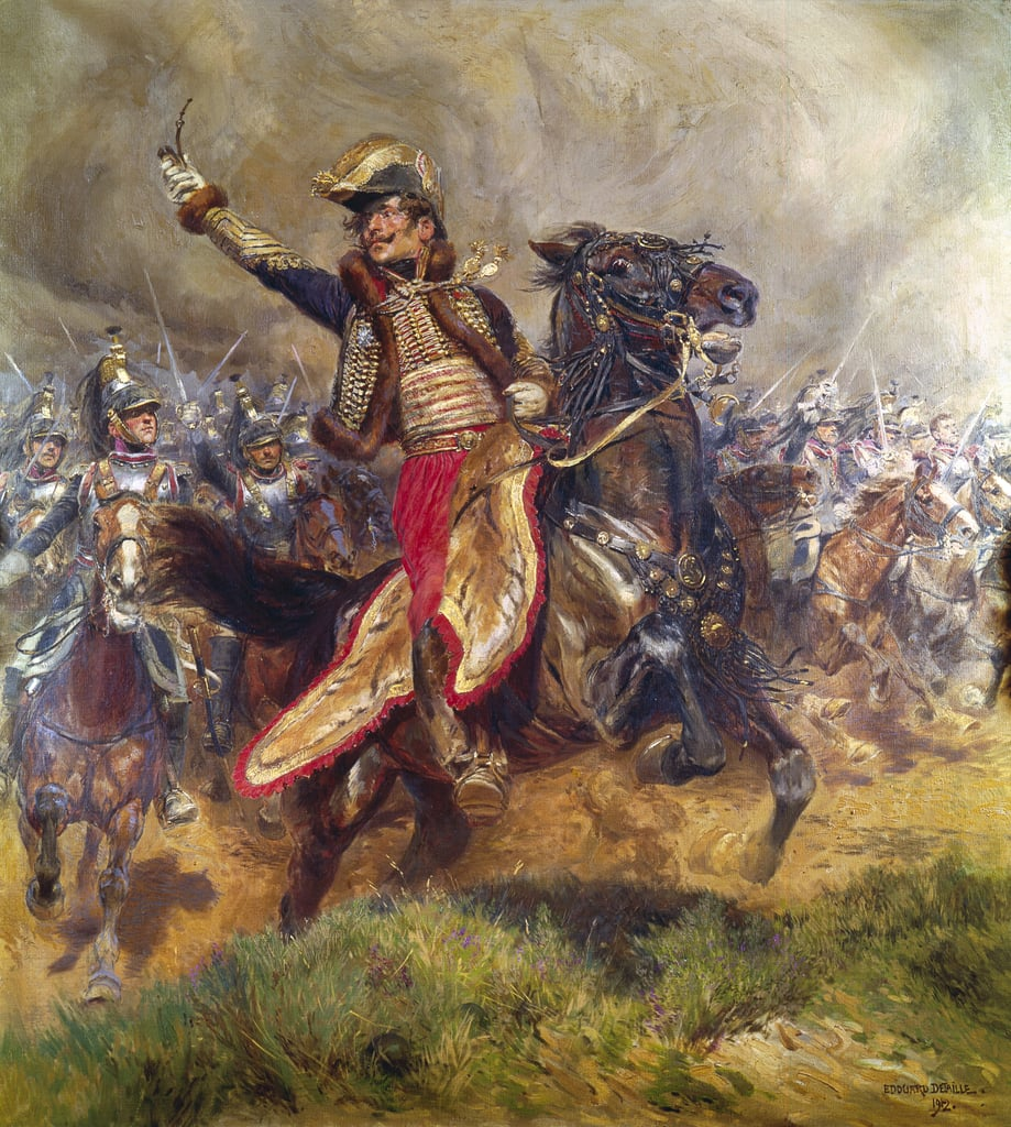 General Lasalle charging at Wagram on June 6th, in the afternoon, just before he was killed.